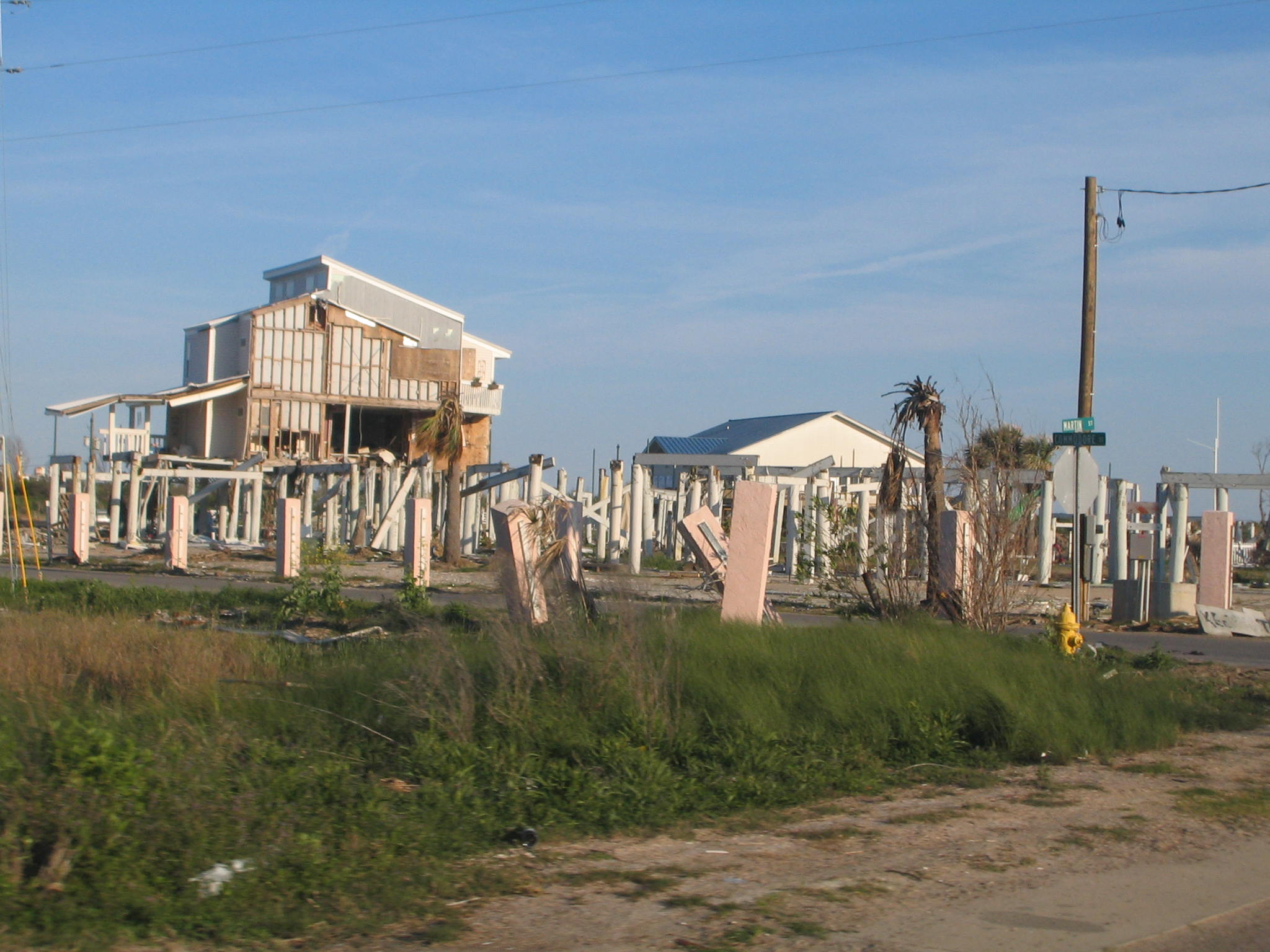 I took this photograph of the Spinnaker Point condos in Pascagoula MS that were destroyed by surge. The partially-remaining damaged condo that remains was one of 40, with the remainder washed away, as seen on page 8 in the MS Press, in a photo taken the day after the hurricane made landfall: Notice the two deck railing planters, with the plants still in them, remain on the deck of the 2nd floor (three stories above ground level). Surge (storm tide, technically) here in eastern Pascagoula reached 16-18 feet, and there would have been waves on top of the surge at a location on the waterfront such as this one. The sheetrock has been pulled away from the studs about four feet up on the 1st floor; this likely tallies with the height of the surge.